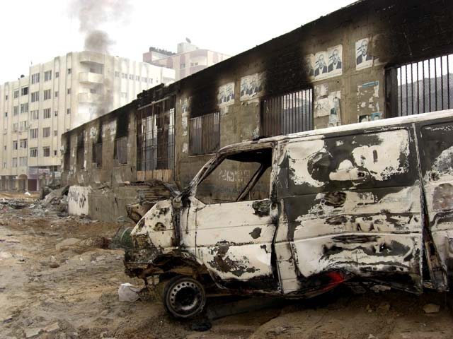 Photos by Eva Bartlett - ISM - Photos by Eva Bartlett - ISM